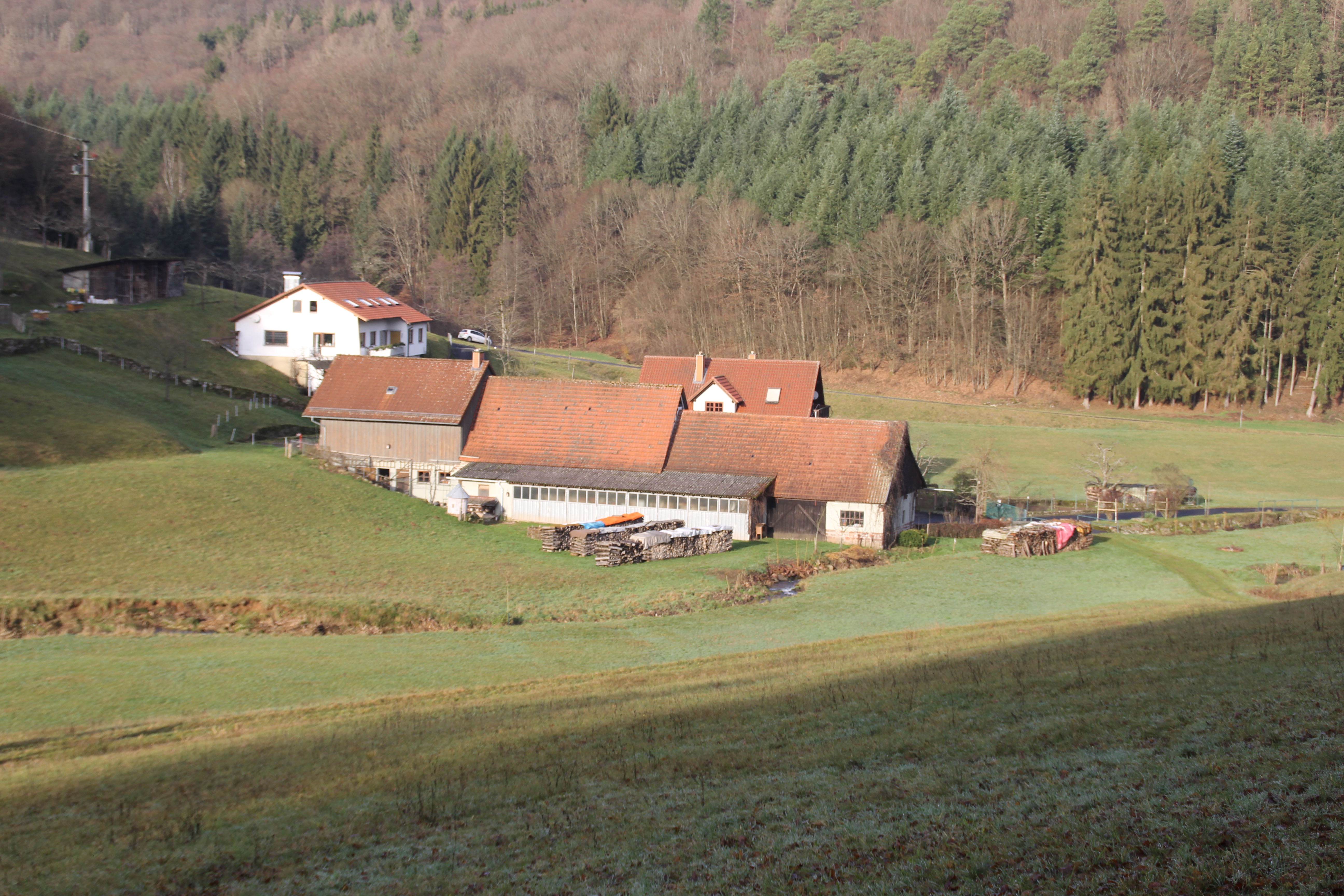 The Alte Wachenmühle near Esselbach in the Landkreis Main-Spessart, Bavaria